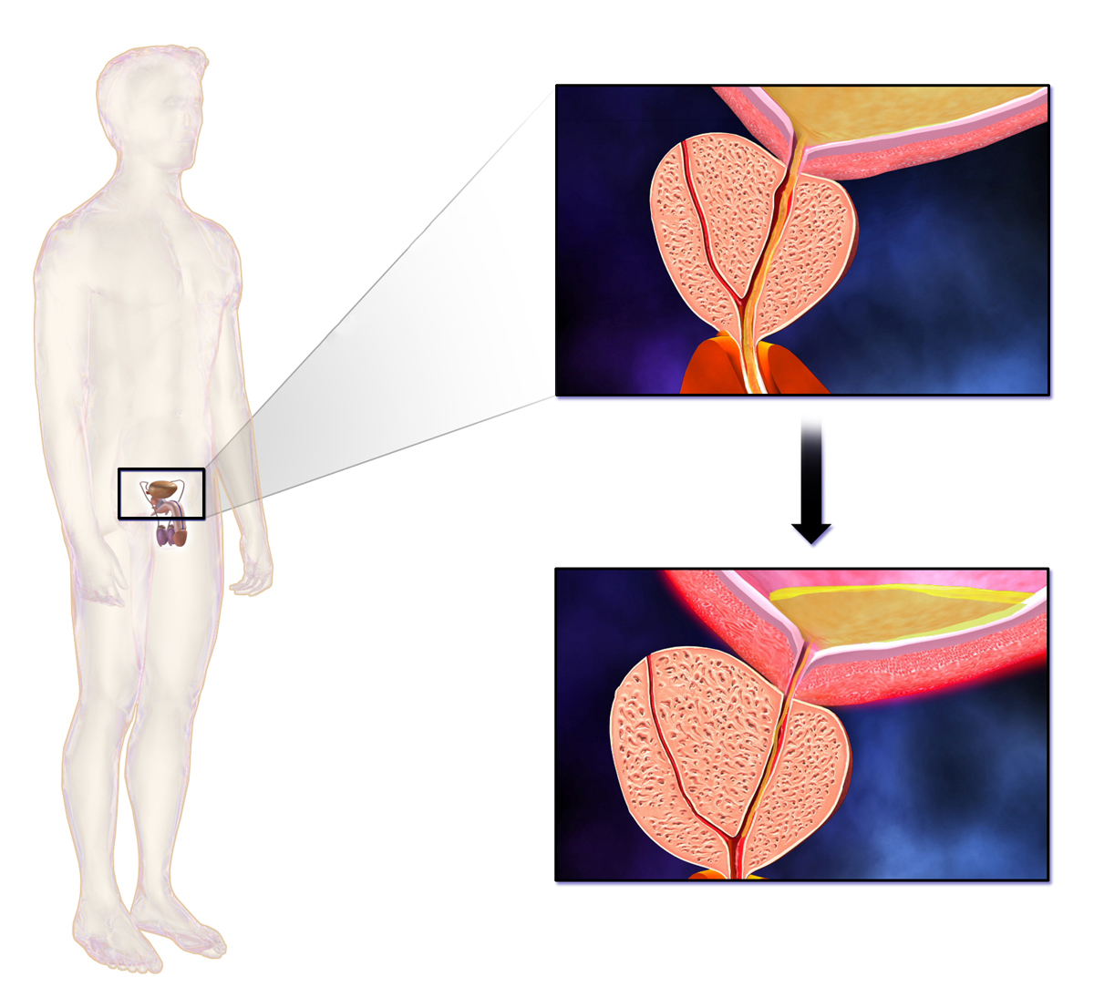 Benign Prostatic Hyperplasia (BPH). This is an edited version of the source image made for use in the "Anatomist" iOS and Android app and shared here under the terms of the source image's Share Alike Creative Commons license.